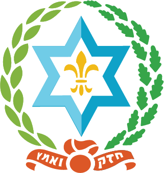 This is the tnua Semel ( Hashomer Hatzair ) redesigned in honor of the 100 years of the movement